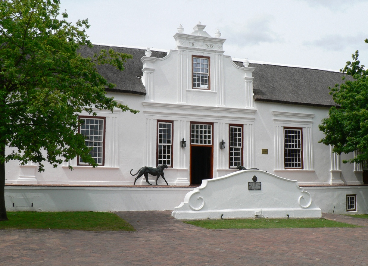 This media shows a South African Protected Site with SAHRA file reference 9/2/084/0023.